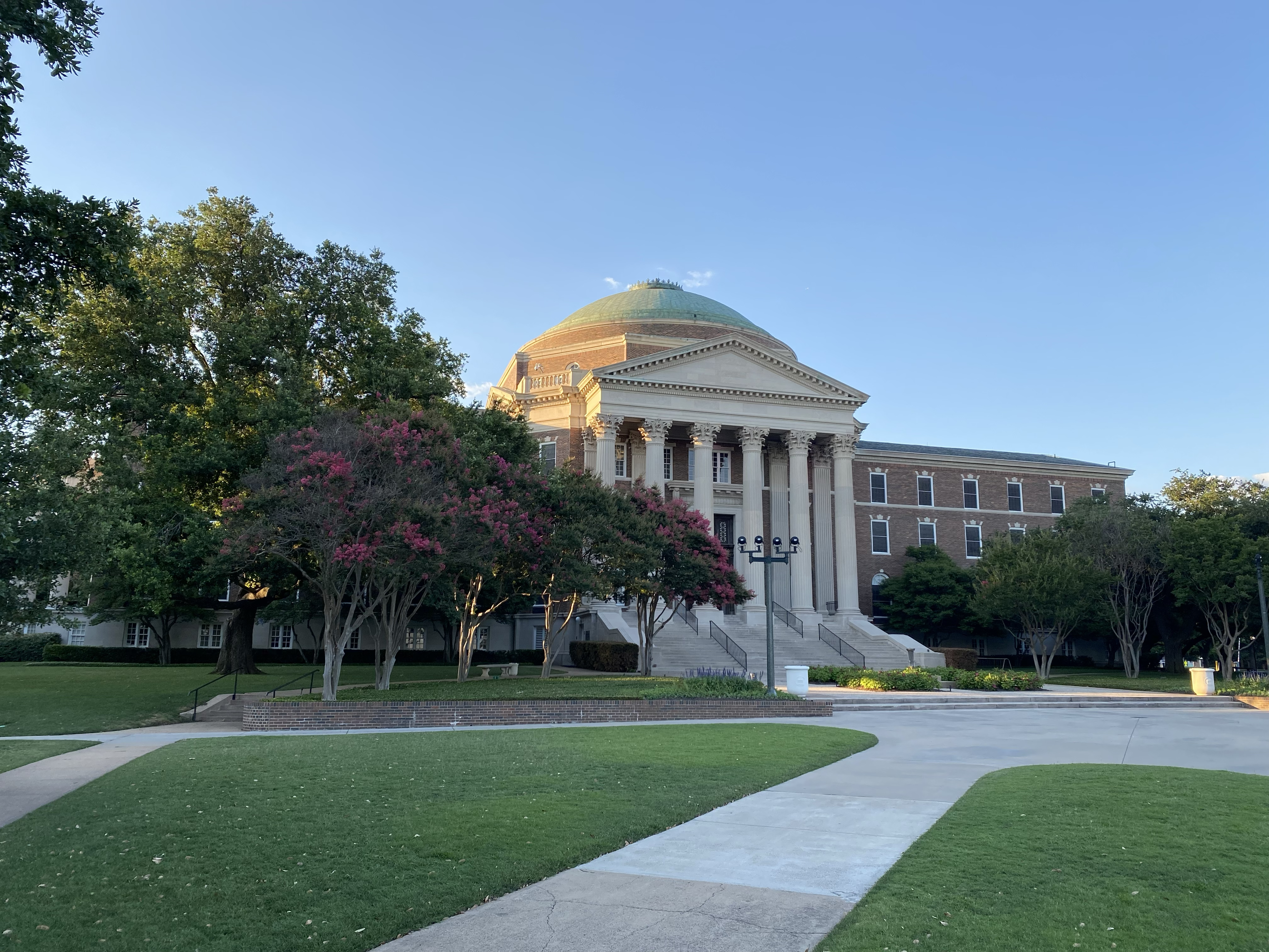 Dallas Hall from southwestern corner